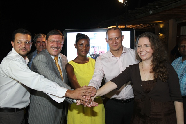 The reception dedicated to the launch of Seychelles News Agency. From left to right: Co-editor Rassin Vannier, the Honorary Consul of the Seychelles in Bulgaria Maxim Behar, Co-editor Sharon Uranie, Seychelles Minister for Foreign Affairs Jean-Paul Adam, and Chief Press Secretary in the Office of the President Srdjana Janosevic.